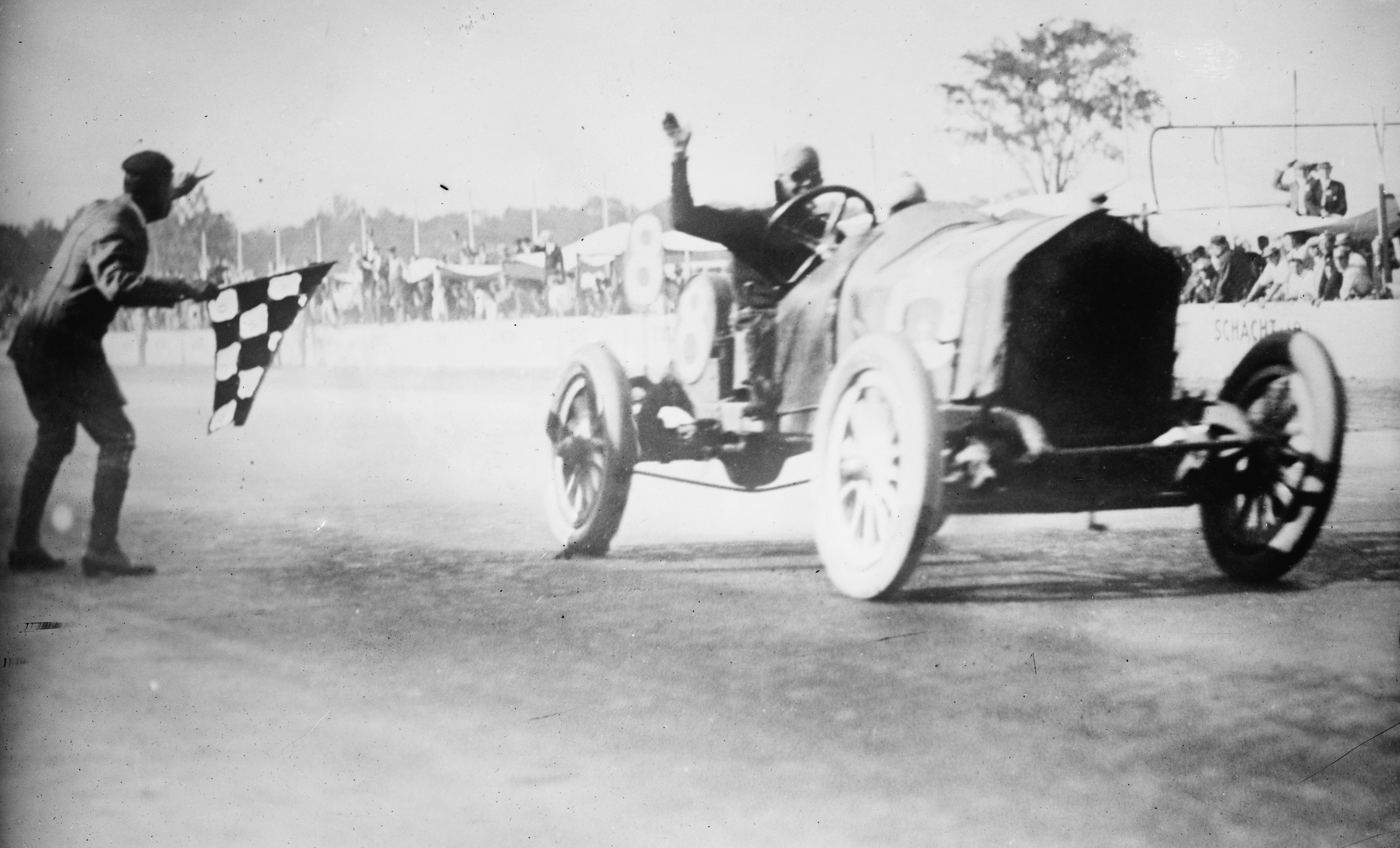 Joe Dawson winning the 1912 Indianapolis 500 race. Wagner flagging Joe Dawson - Indianapolis.